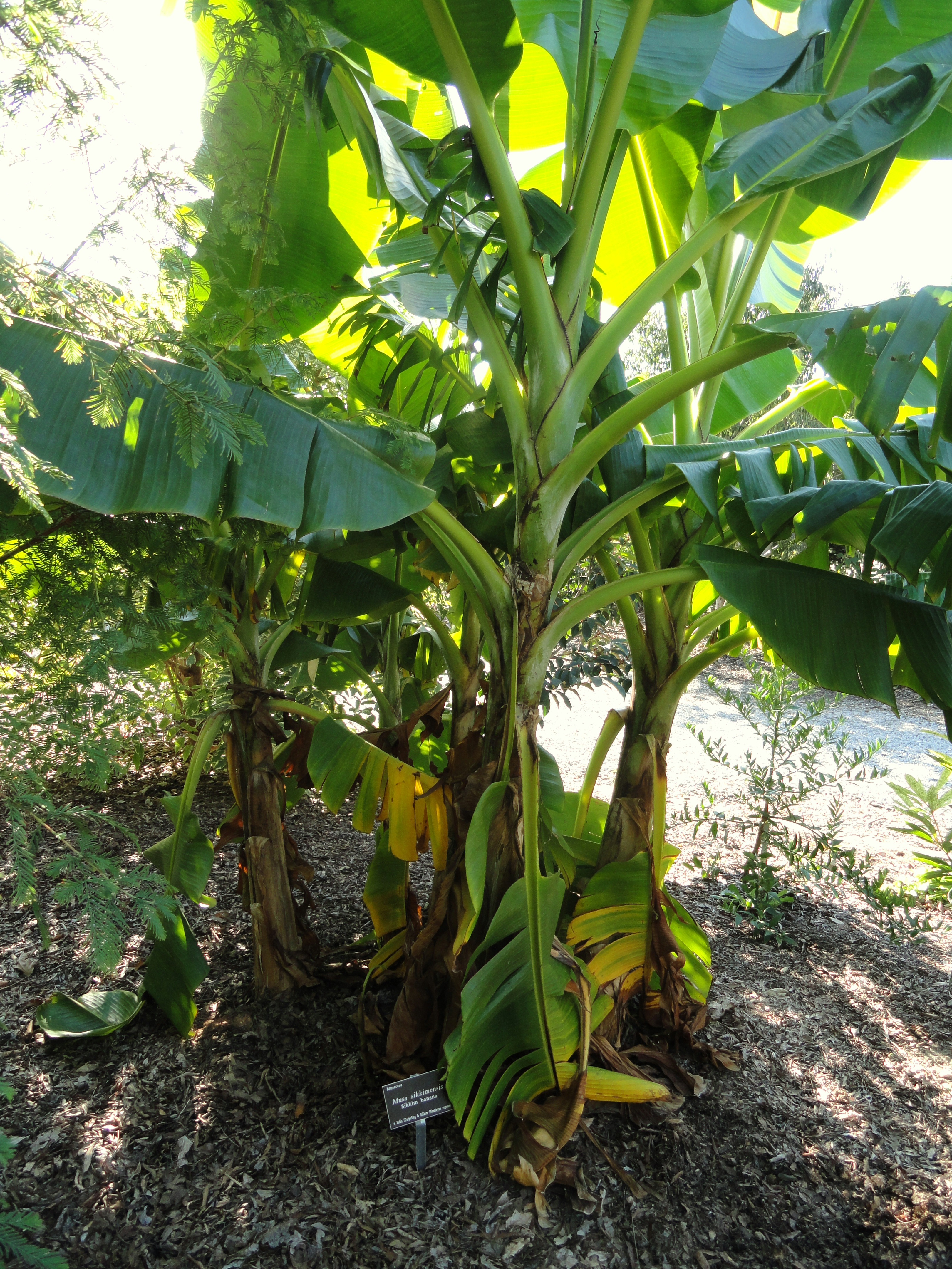 Musa sikkimensis specimen in the J. C. Raulston Arboretum (North Carolina State University), 4415 Beryl Road, Raleigh, North Carolina, USA.